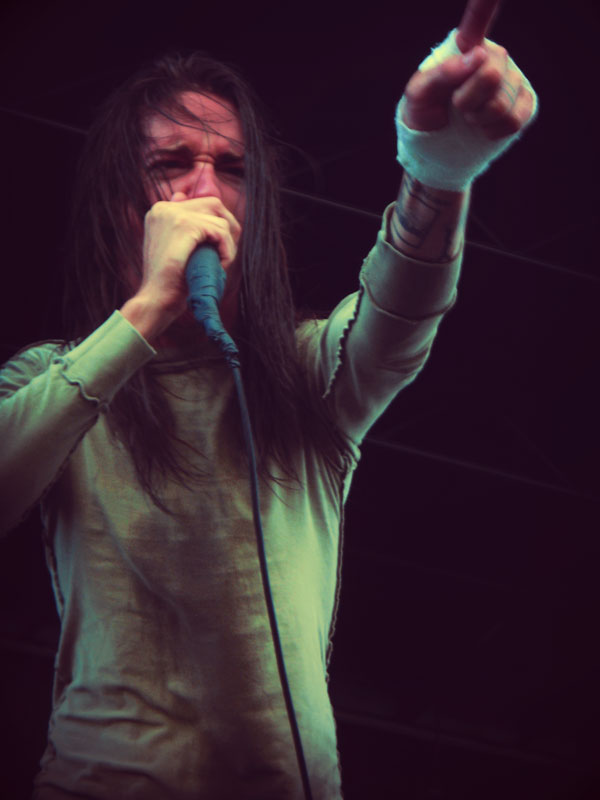 Spencer Chamberlain performing with Underoath as part of the Vans Warped Tour 2009.